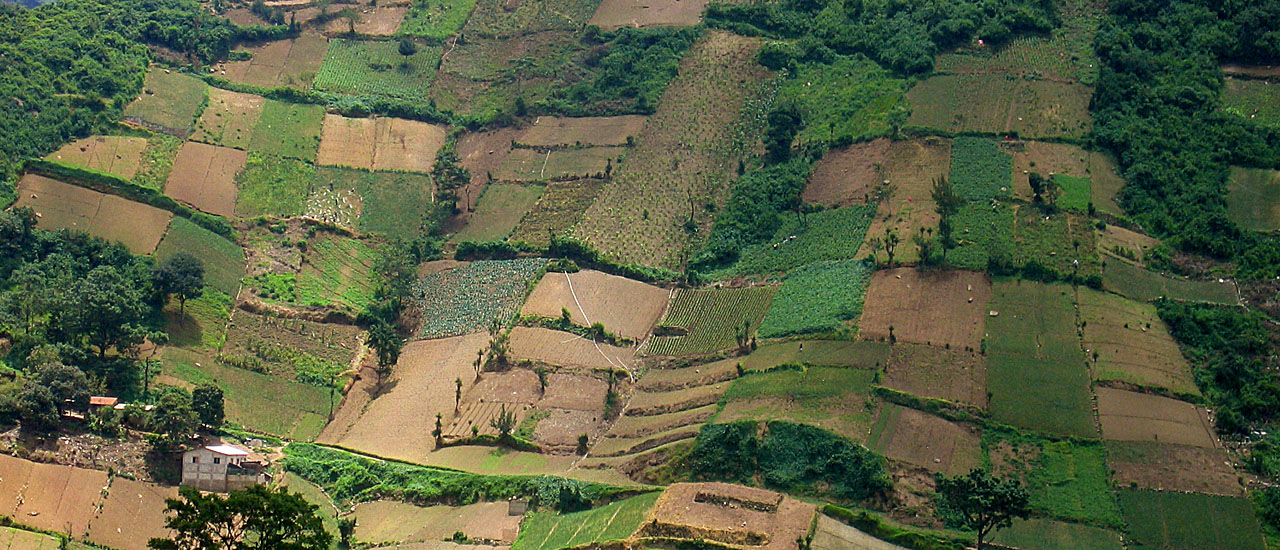 Patchwork of cultivated fields on mountain slope in Quetzaltenango, Guatemala.